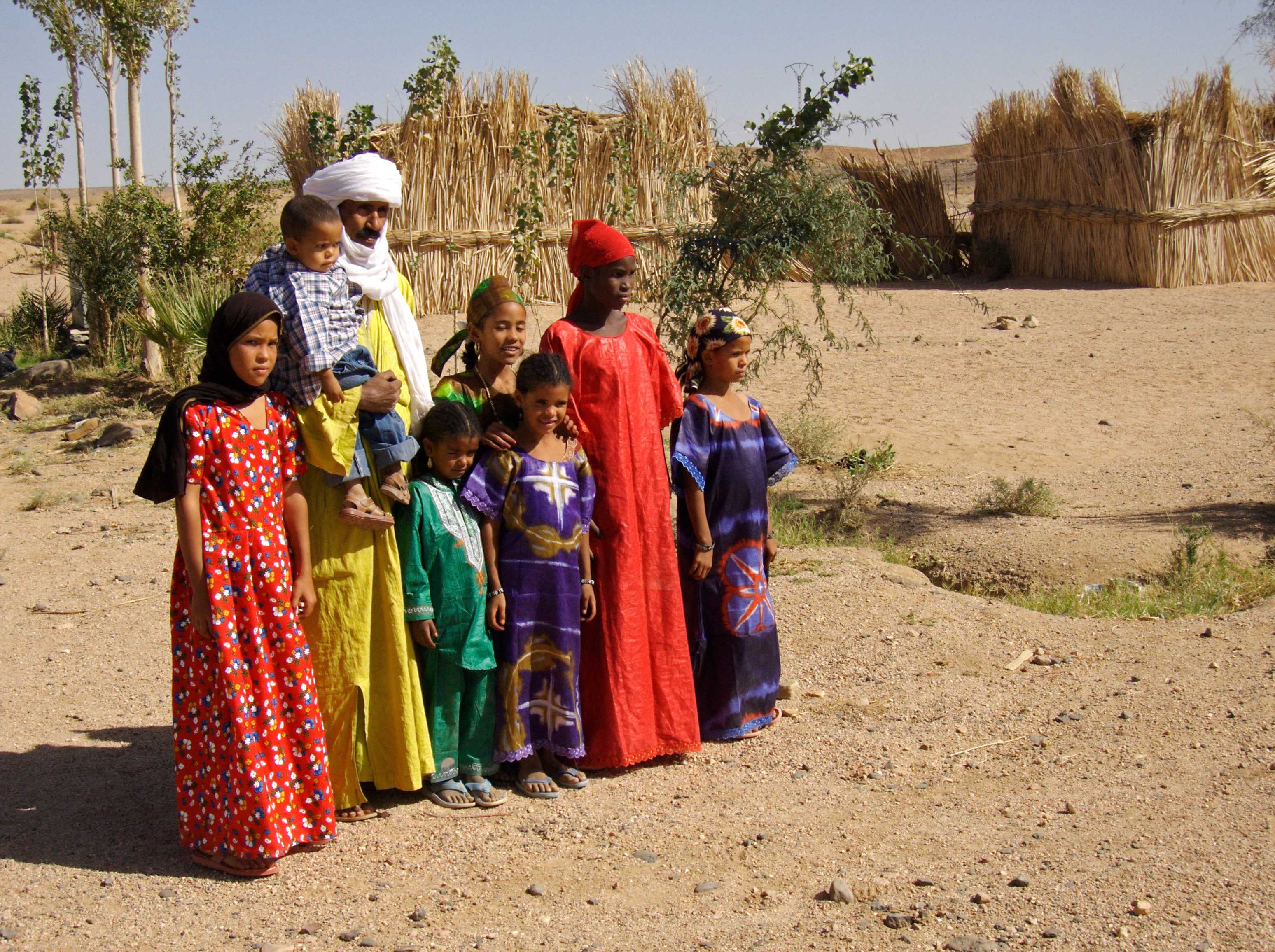 Mountain of Ghosts - Algeria - November 2005 - People